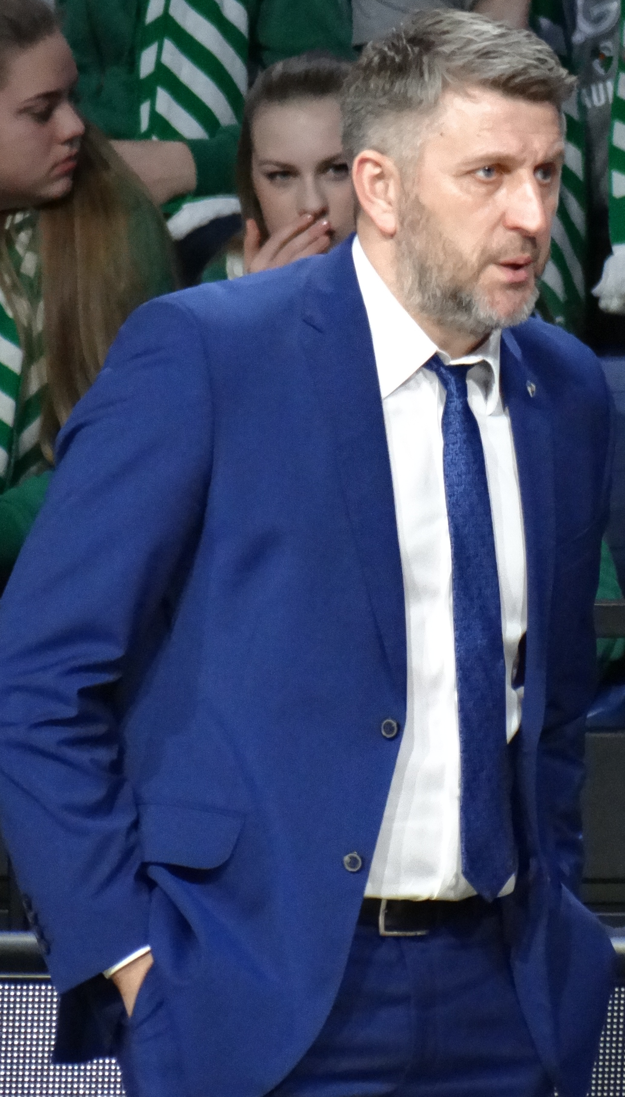 Darius Maskoliūnas BC Žalgiris EuroLeague 20180223